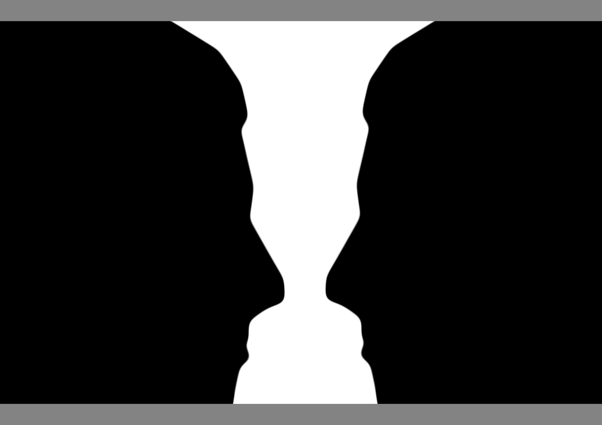 Two silhouette profiles or a white vase? (an optical illusion)